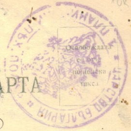 1_Mountain_Regiment_Seal